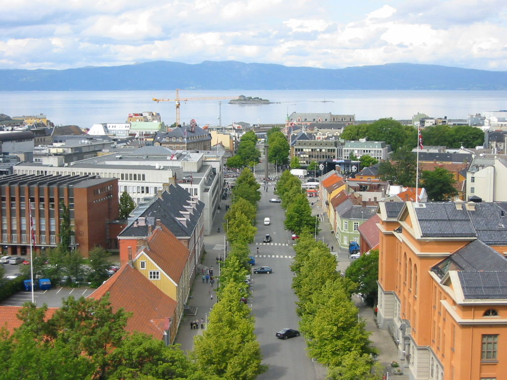 I took this picture myself from the tower of the Nidaros Cathedral, overlooking the centre towards north and the Trondheimsfjord.